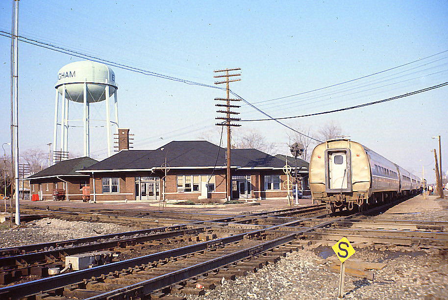 Effingham, Illinois March 1979. Used by Illinois Central and B&O Railroads. Train in picture is Amtrak #30, National Limited bound for New York. Scan from 35mm slide.